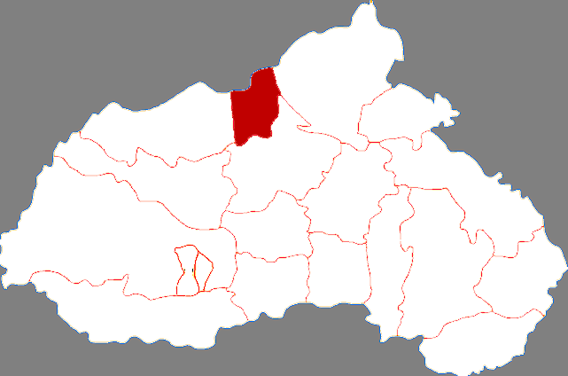 Location of Baixiang county in Xingtai City, China